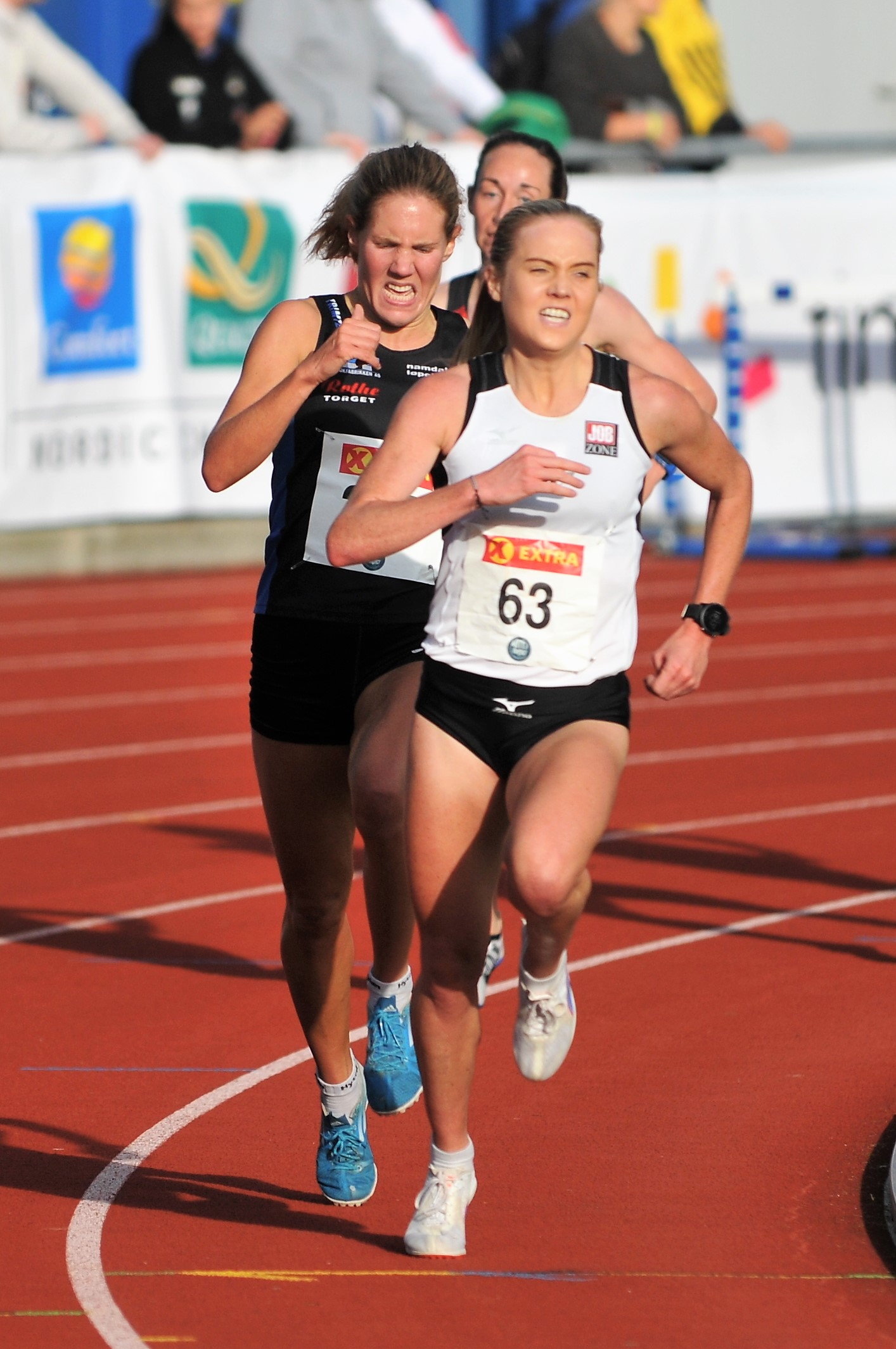 Kristine Eikrem Engeset at the Norwegian Athletics Championships in Sandnes 2017.